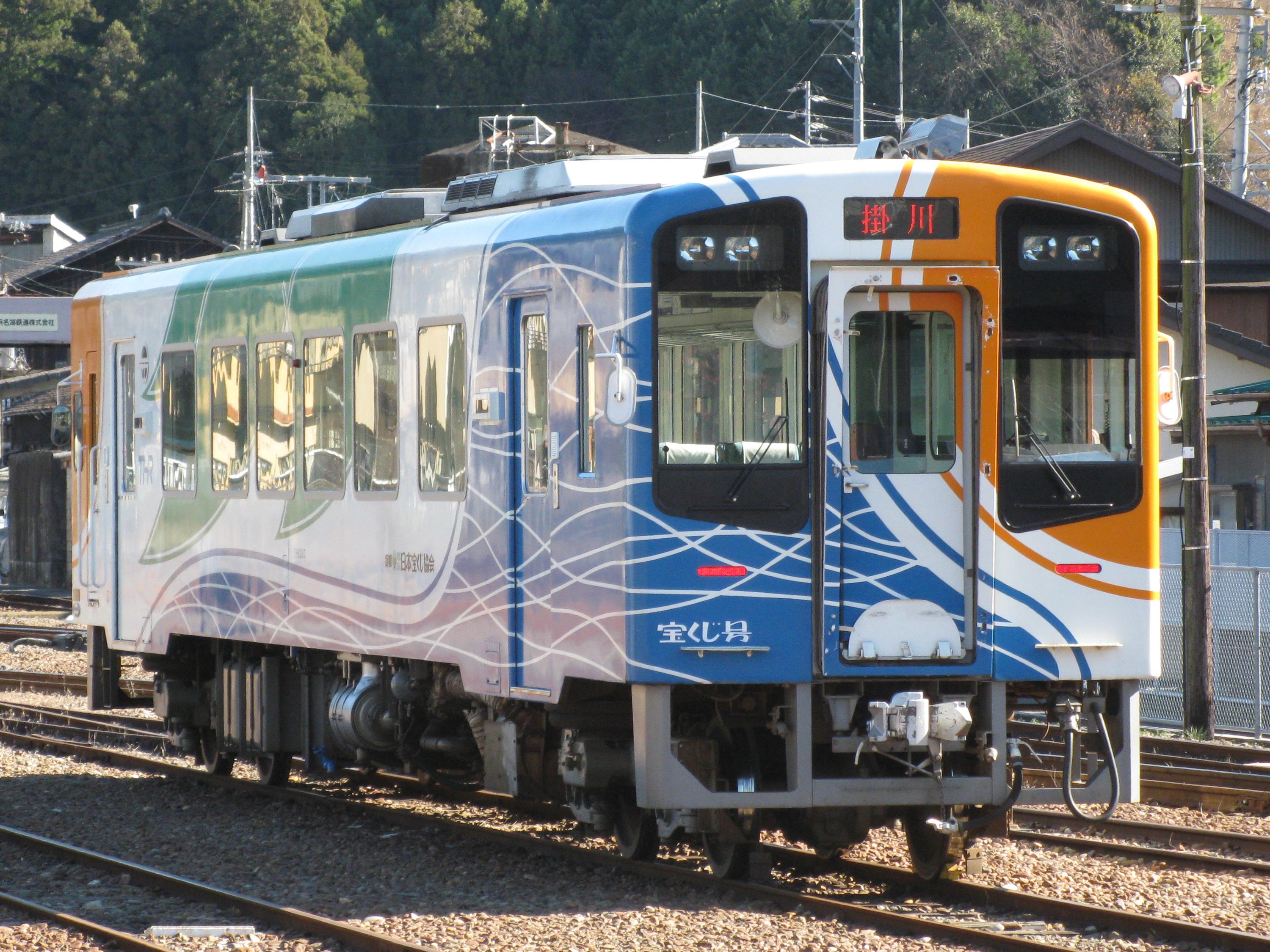 Tenryu Hamanako Railroad series TH9200